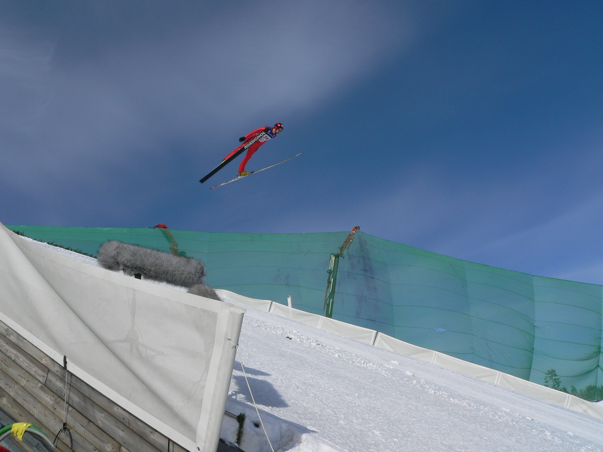 From the nordic combined event in Holmenkollen on 12.3.2005. Magnus Moan in Homenkollen, march 2005